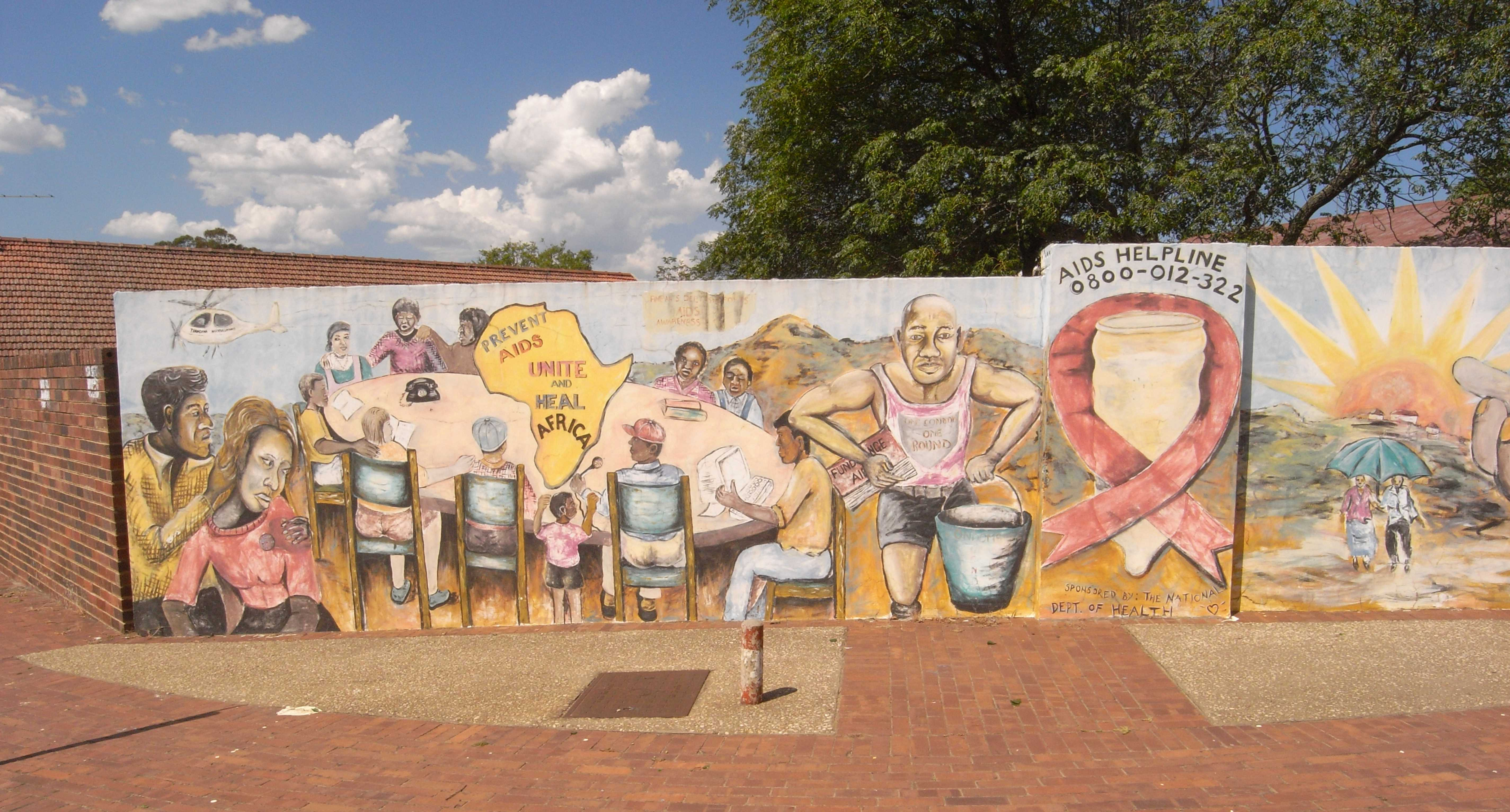 Alice, Open-air-Art near Fort Hare (Eastern Cape, South Africa)